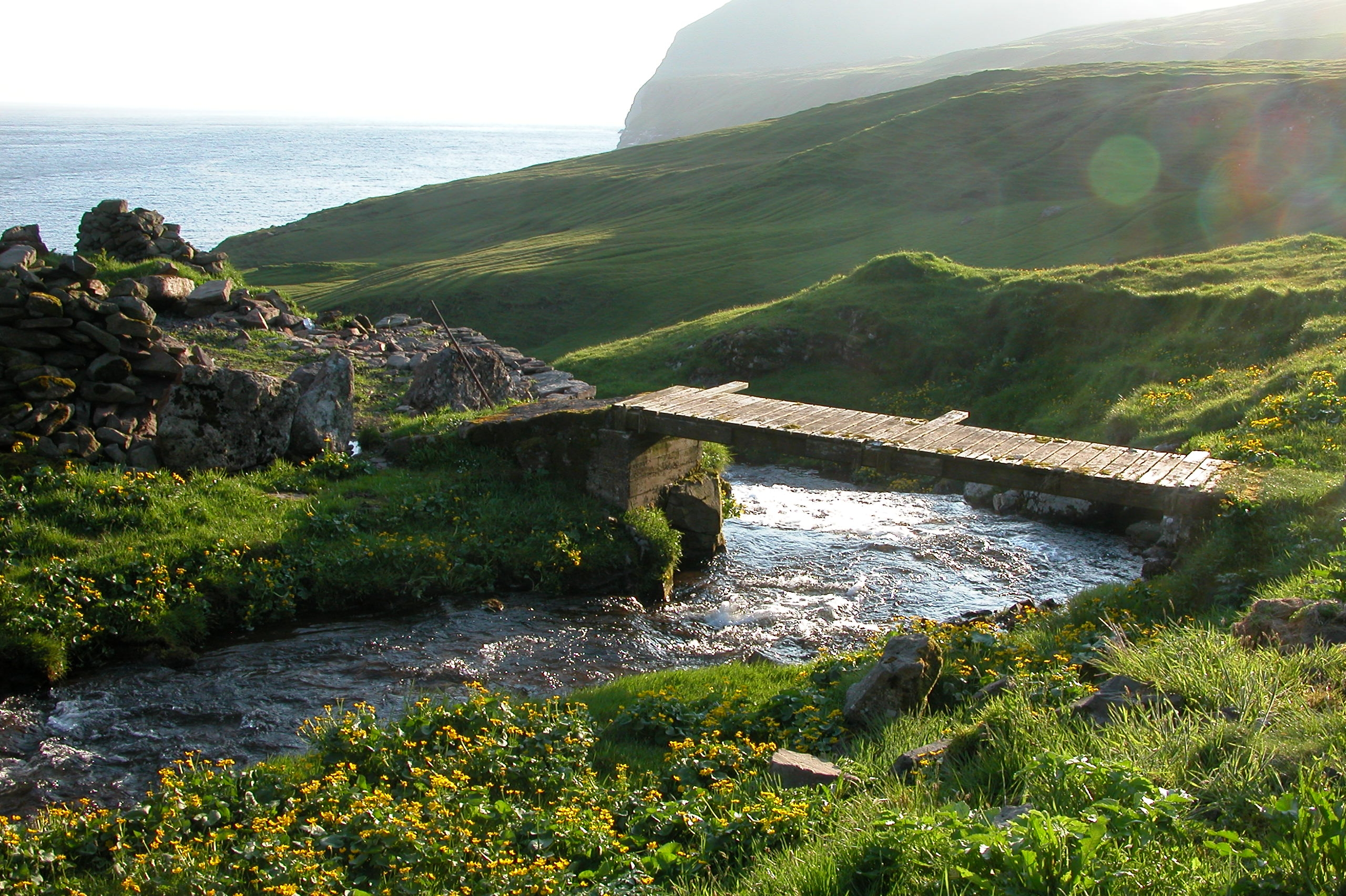 At Norðradalur on Streymoy, Faroe Islands